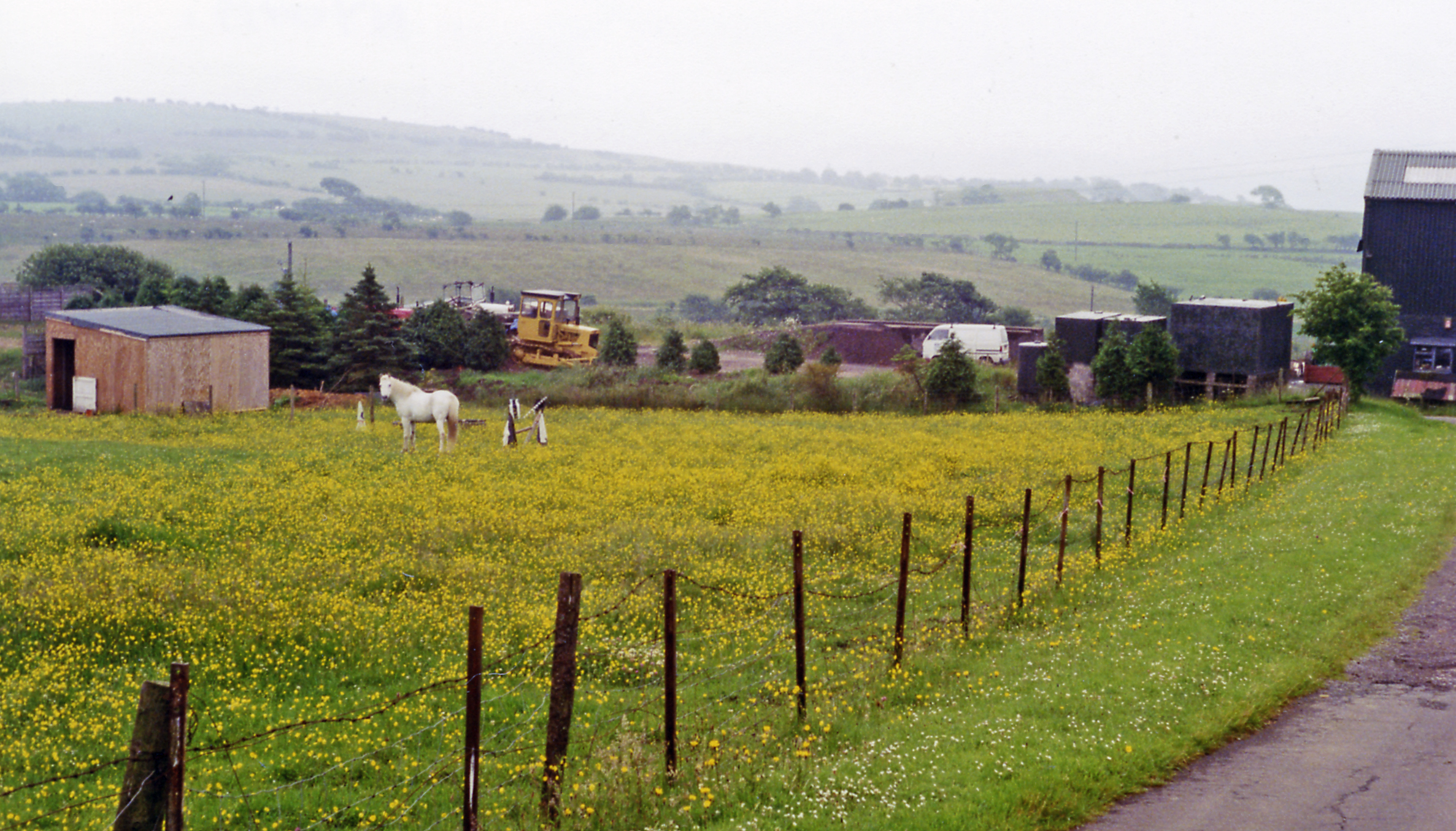 Site of Arlecdon station. View north to the Fells near Lamplugh. Until closed finally from 7/8/38 - to passengers on 1/1/27, the branch from Distington (to the left) of the former Cleator & Workington Junction Railway had run to Rowrah (to the right). The Pullman car now used at the Hound Inn, Arlecdon as a restaurant must have been brought by road!